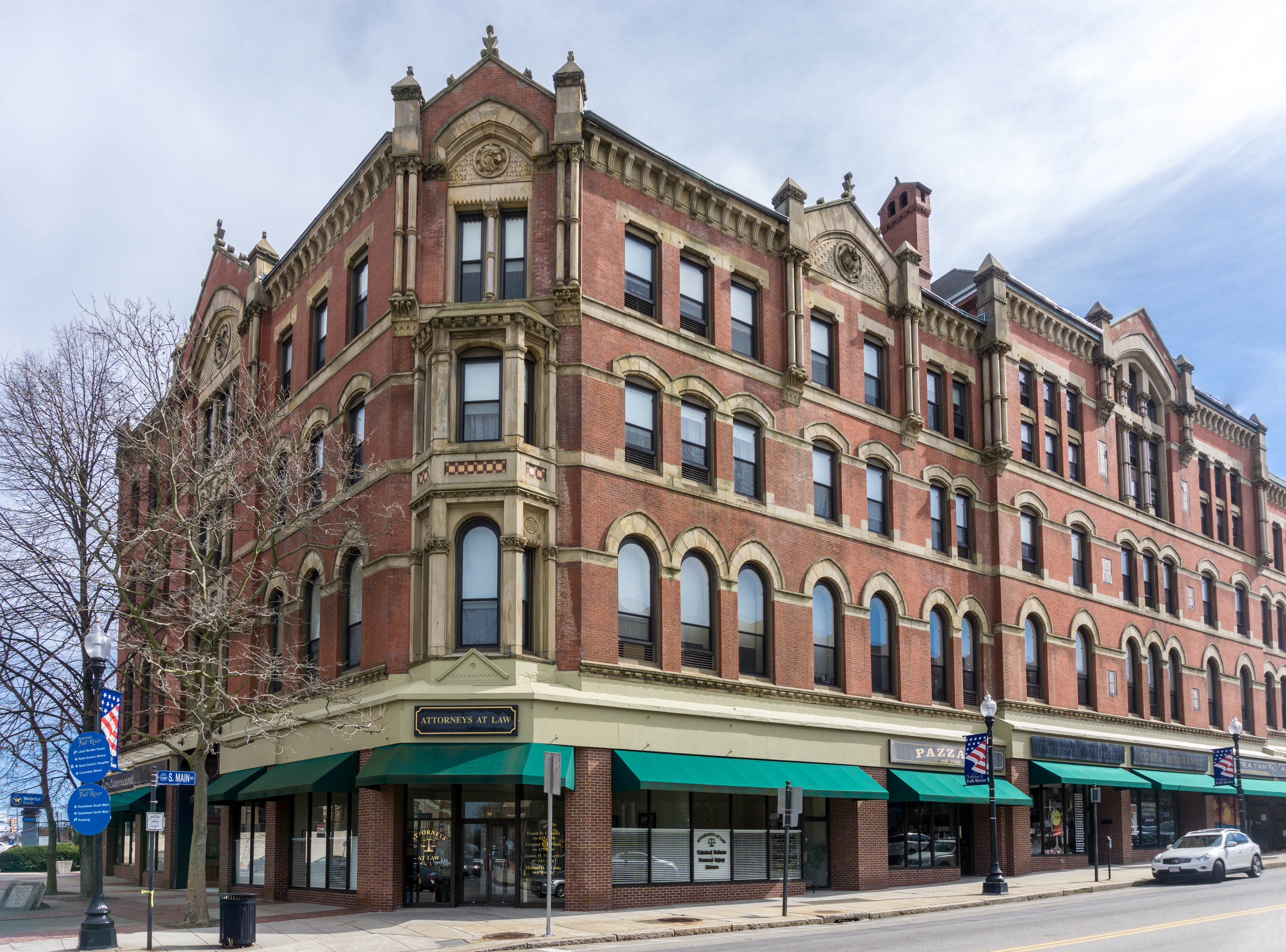 Academy Building, Fall River, Massachusetts. Constructed 1875. NRHP ID 73000277